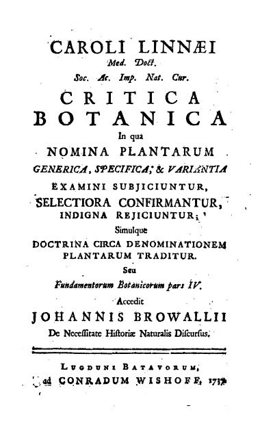 The title page of the book Critica Botanica (1737) of swedish scientist Carl Linnaeus (1707-1778).